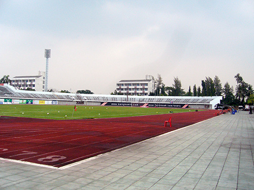 72-years Anniversary Stadium (Bang Mod)